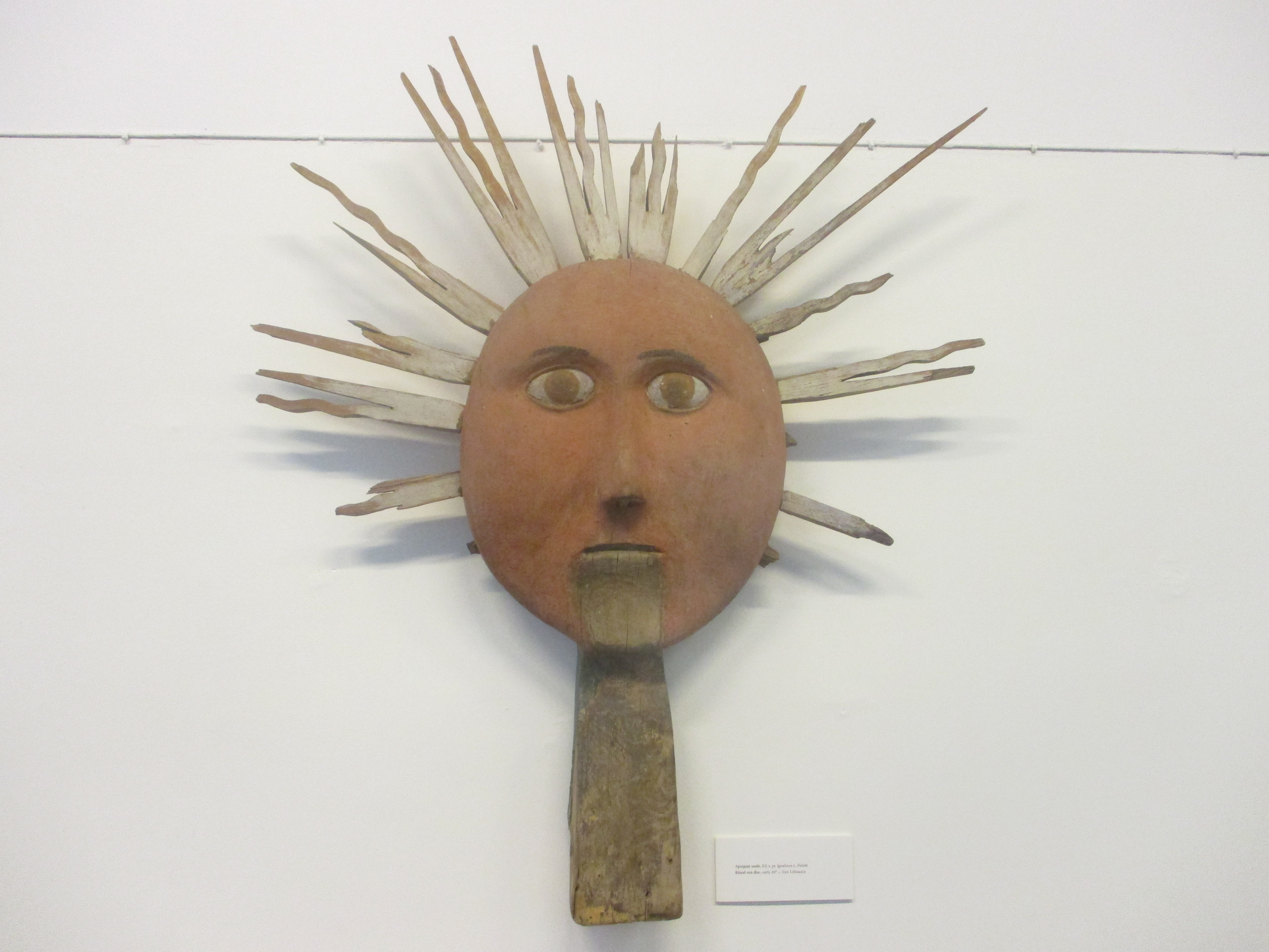 Early 20th century idol of mythological Saulé from Palūšė, Ignalina District. Currently located at the National Museum of Lithuania.